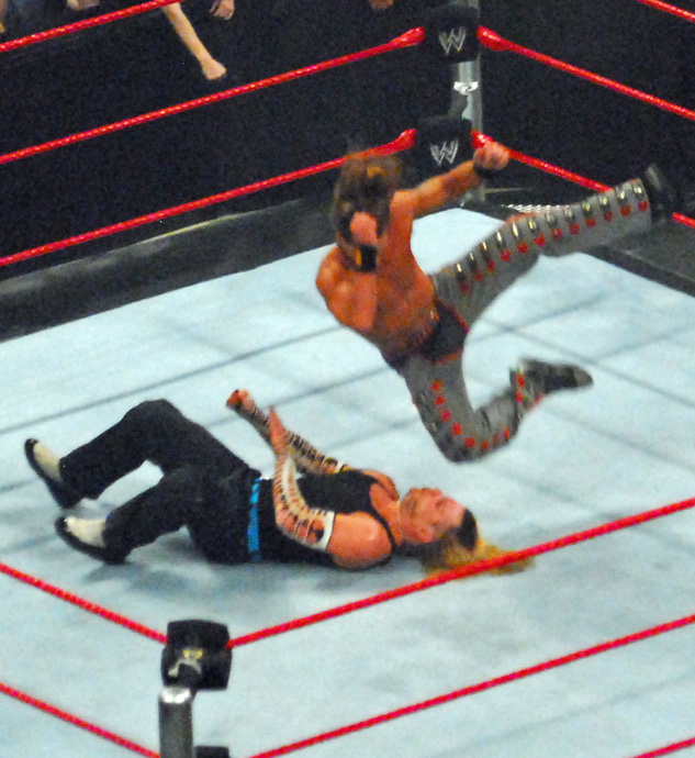 Shawn Michaels does his signature elbow drop.